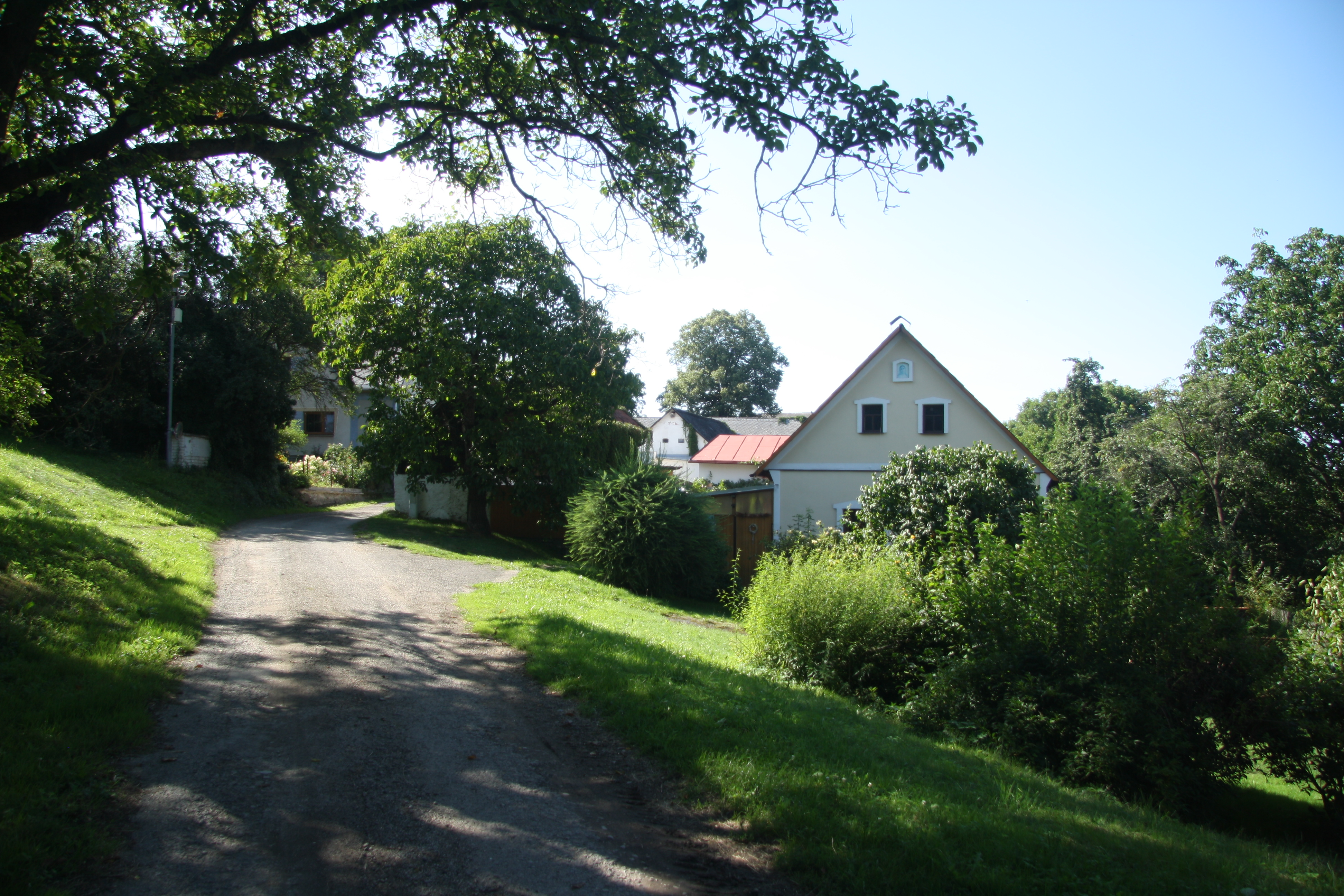 Houses in Kojkovičky, Krásná Hora, Havlíčkův Brod District.